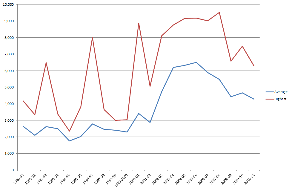 Yeovil Town's highest and average home attendances since they moved to Huish Park in 1990.